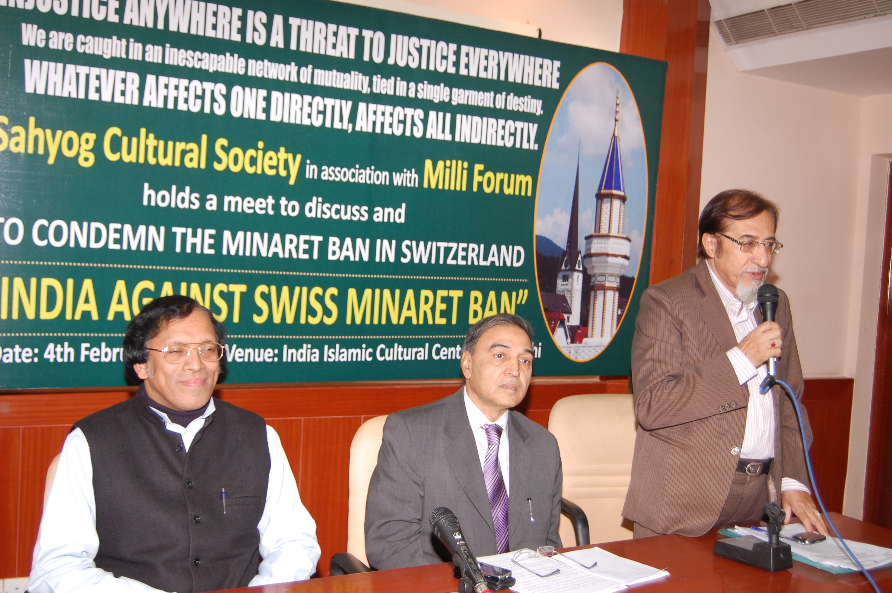 meet to condemn the Swiss vote to ban the construction of new minarets The Sahyog Cultural Society in association with Milli Forum organized a meet to condemn the Swiss government's ban on minaret of mosques and passed a resolution to approach the United Nations and Amnesty International for reversal of the order. The conference, held at the India Islamic Cultural Centre in New Delhi, was chaired by Mr. Sami Bubere, President, Sahyog Cultural Society and Chief of Milli Forum. A memorandum was unanimously passed which would be presented to the Embassy of Switzerland, Prime Minister's Office and Ministry of Externals Affairs of India.